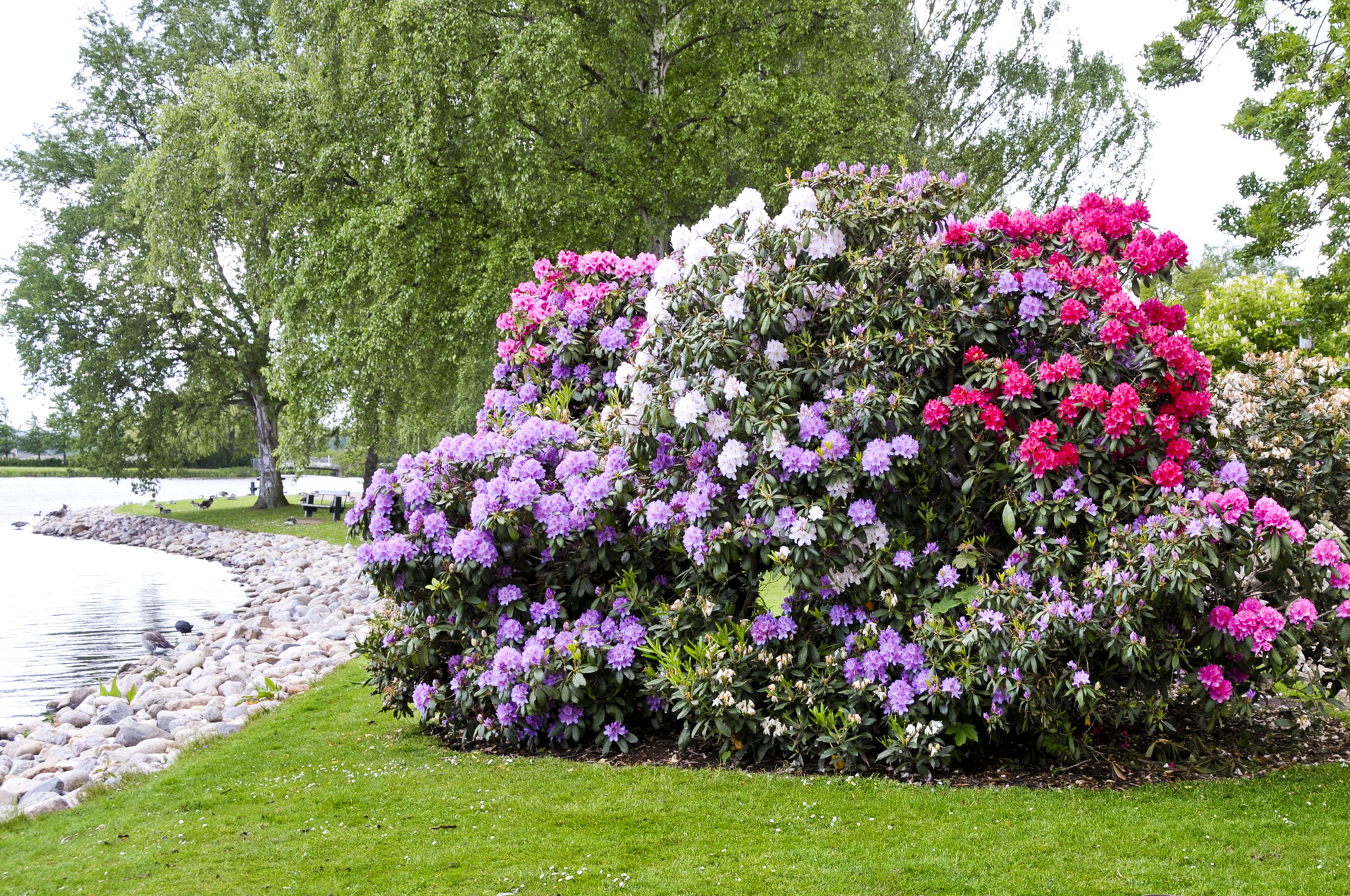 Flowers in Haderslev Dampark in Haderslev Denmark